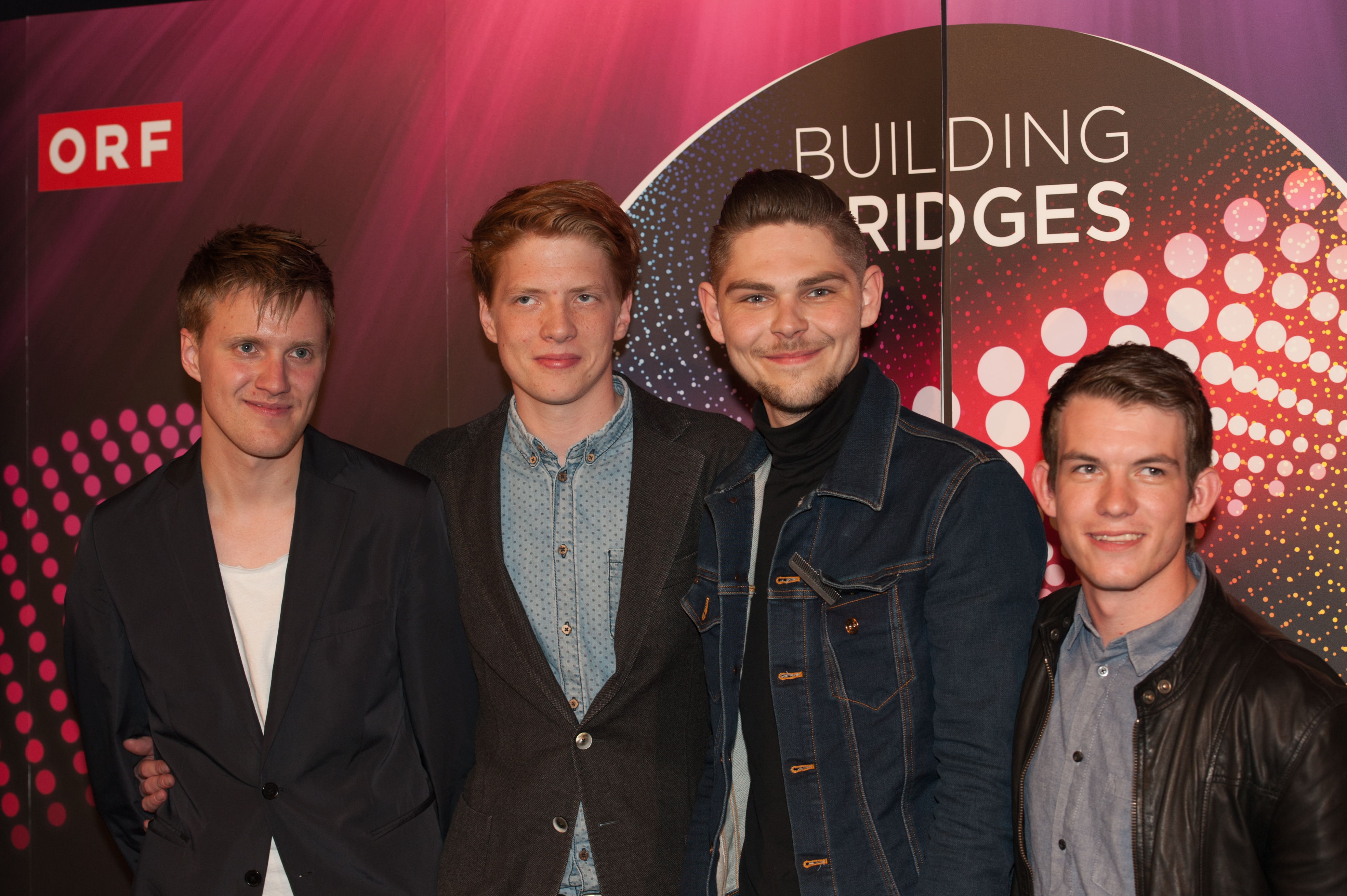 Eurovision Song Contest Vienna 2015: Anti Social Media, Denmark